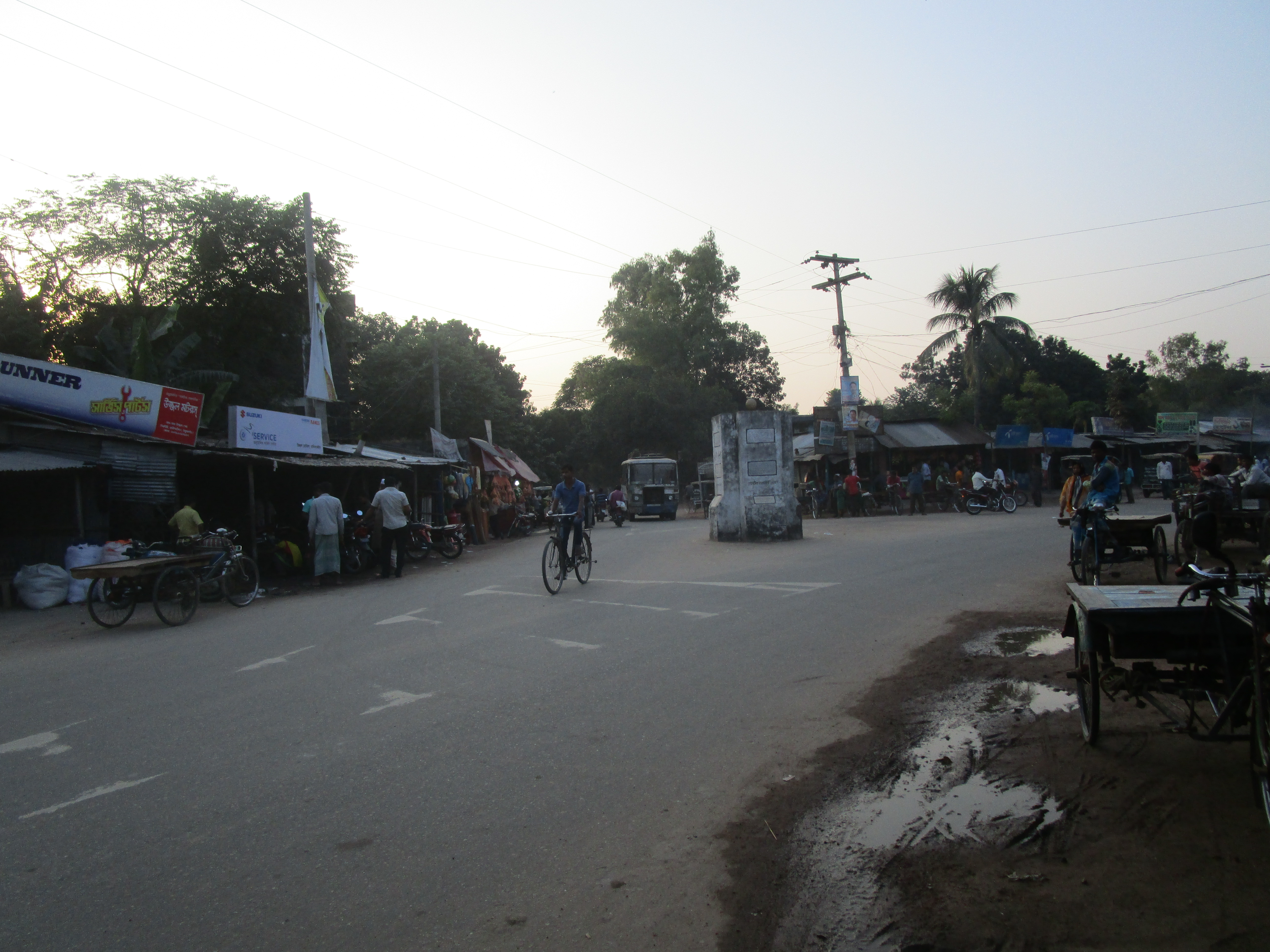 Shibdhighi Tematha at Ranisonkoil Upazila. Left side starting point of Z5004 Ranishankoil-Haripur Road and right side is Z5002